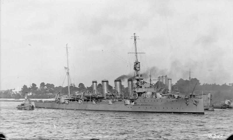 British cruiser HMS Liverpool at Brindisi, Italy.